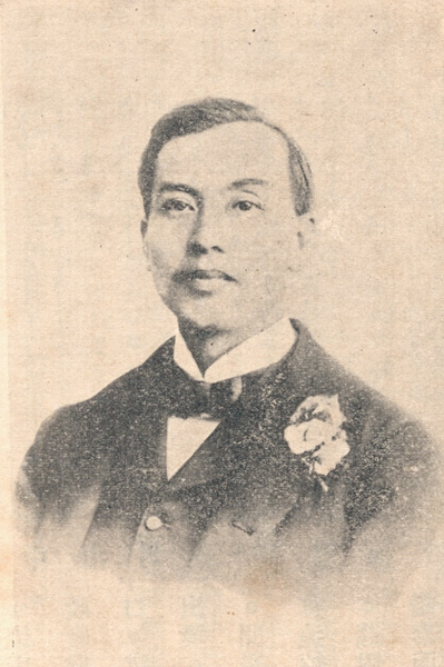 Yang Ch'u Yun 楊衢雲（1861－1901）